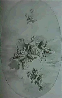 Attributed to Bartolomeo Tarsia/ DESIGN FOR A CEILING DECORATION